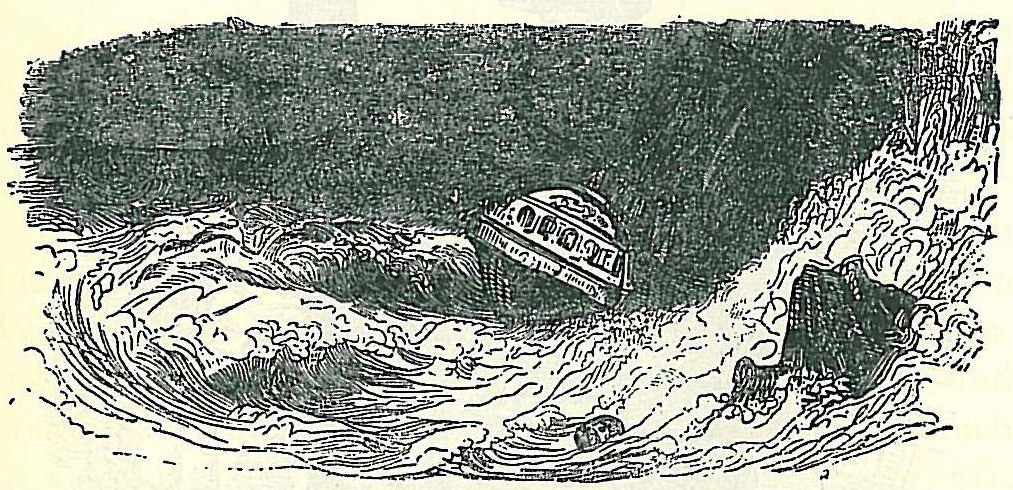 illustration of Jonathan Swift’s novel Gulliver’s Travels by Grandville